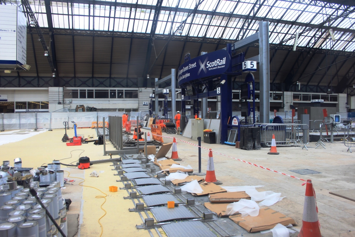 During 2016's lengthy closure of the high level platforms at Glasgow's Queen Street station most of the fittings were removed to allow easier access for the engineers who were preparing the line for electric trains. The row of humps in the foreground of this picture is all that remains of the ticket barriers on the east side of the concourse.